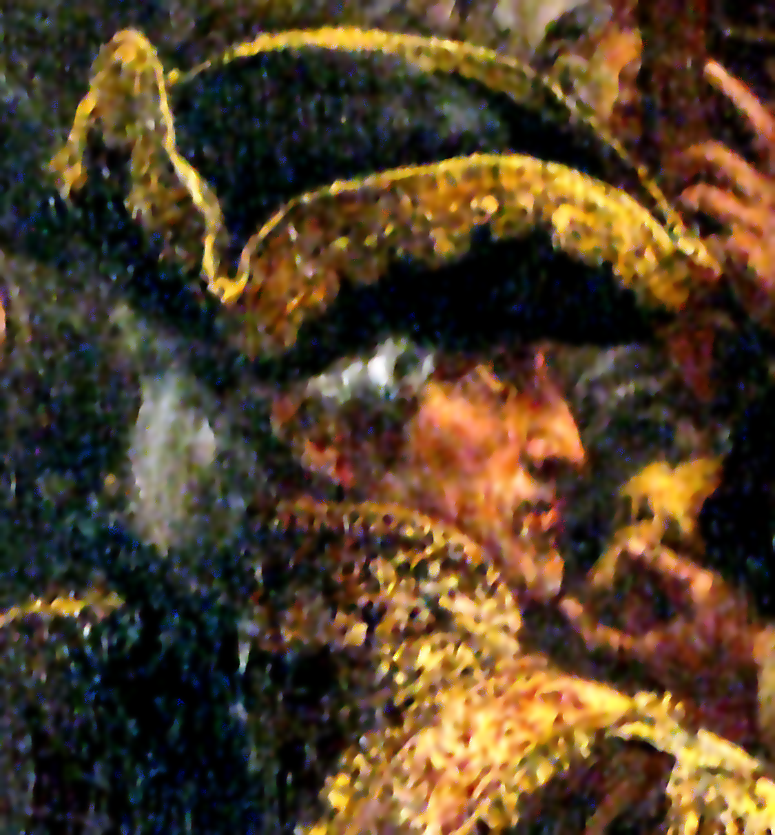 Fragment of Konstytucja 3 maja painting by Jan Matejko 1891